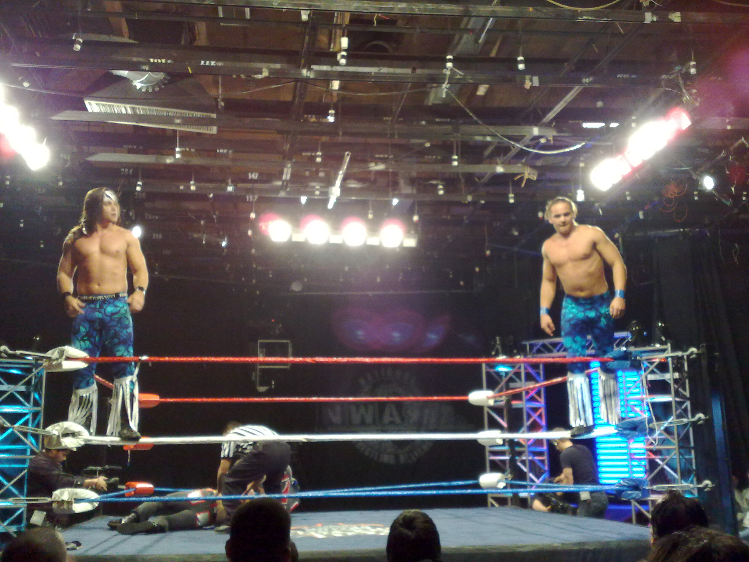 The Young Bucks (Matt, left, and Nick Jackson, right) posing on the turnbuckles at an NWA Wrestling Showcase on December 12, 2008.